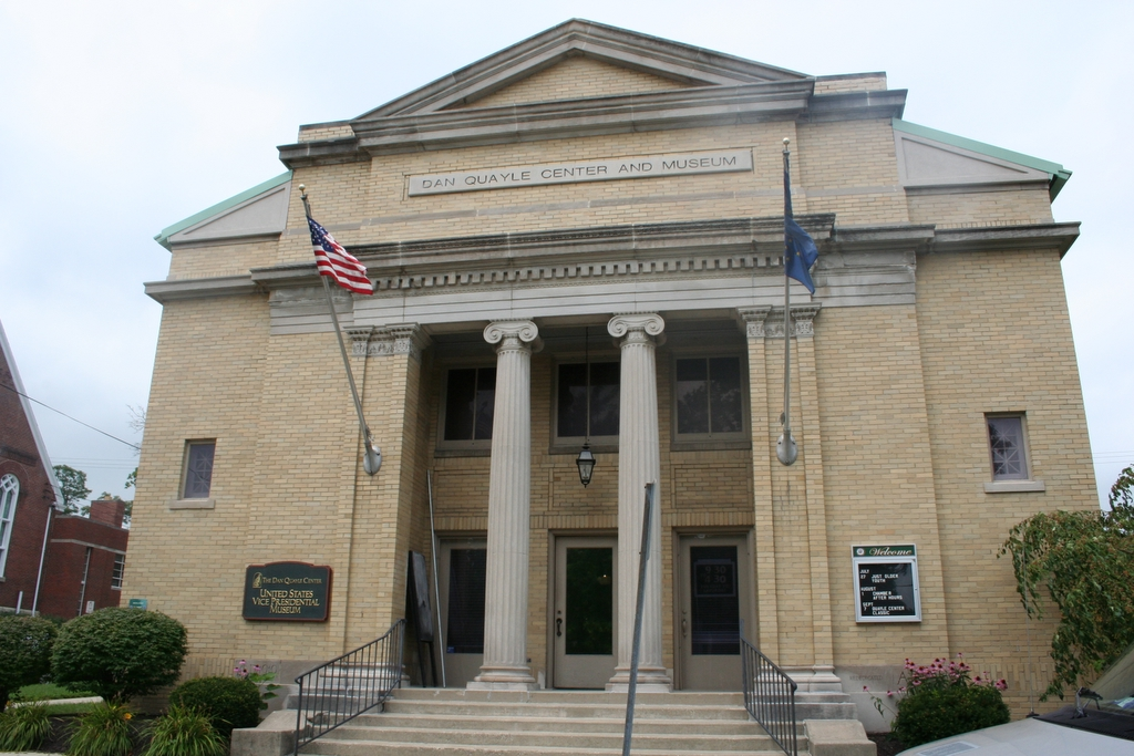 The Dan Quayle Center and Museum, Huntington, Indiana, USA. July 2006 / Le Centre & Musée Dan Quayle, Huntington, Indiana, Juillet 2006.